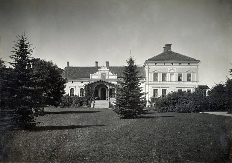 Viljandi (Fellin) Manor house in 1906, Russian Empire, Governorate of Estonia